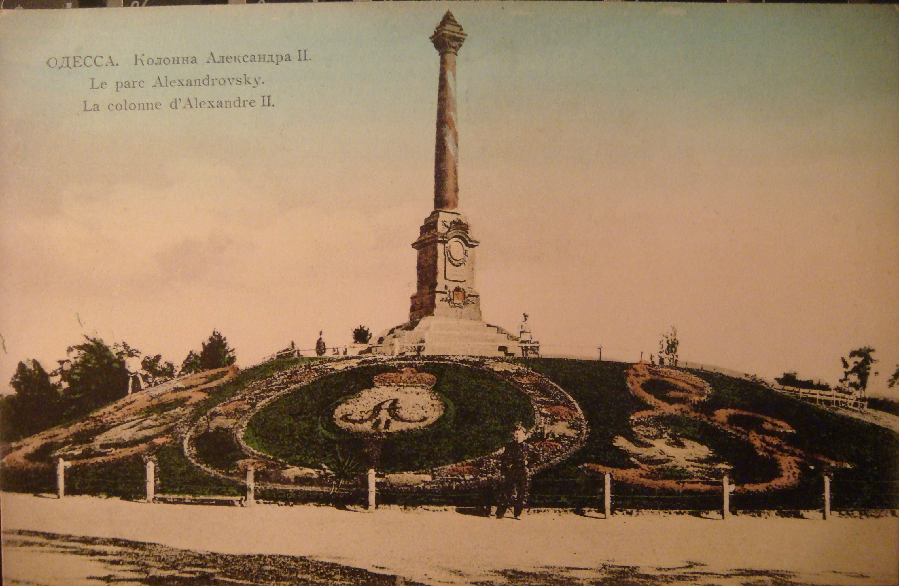 Old Carte Postale with view of Monument of Alexander II in Alexander Park in Odessa